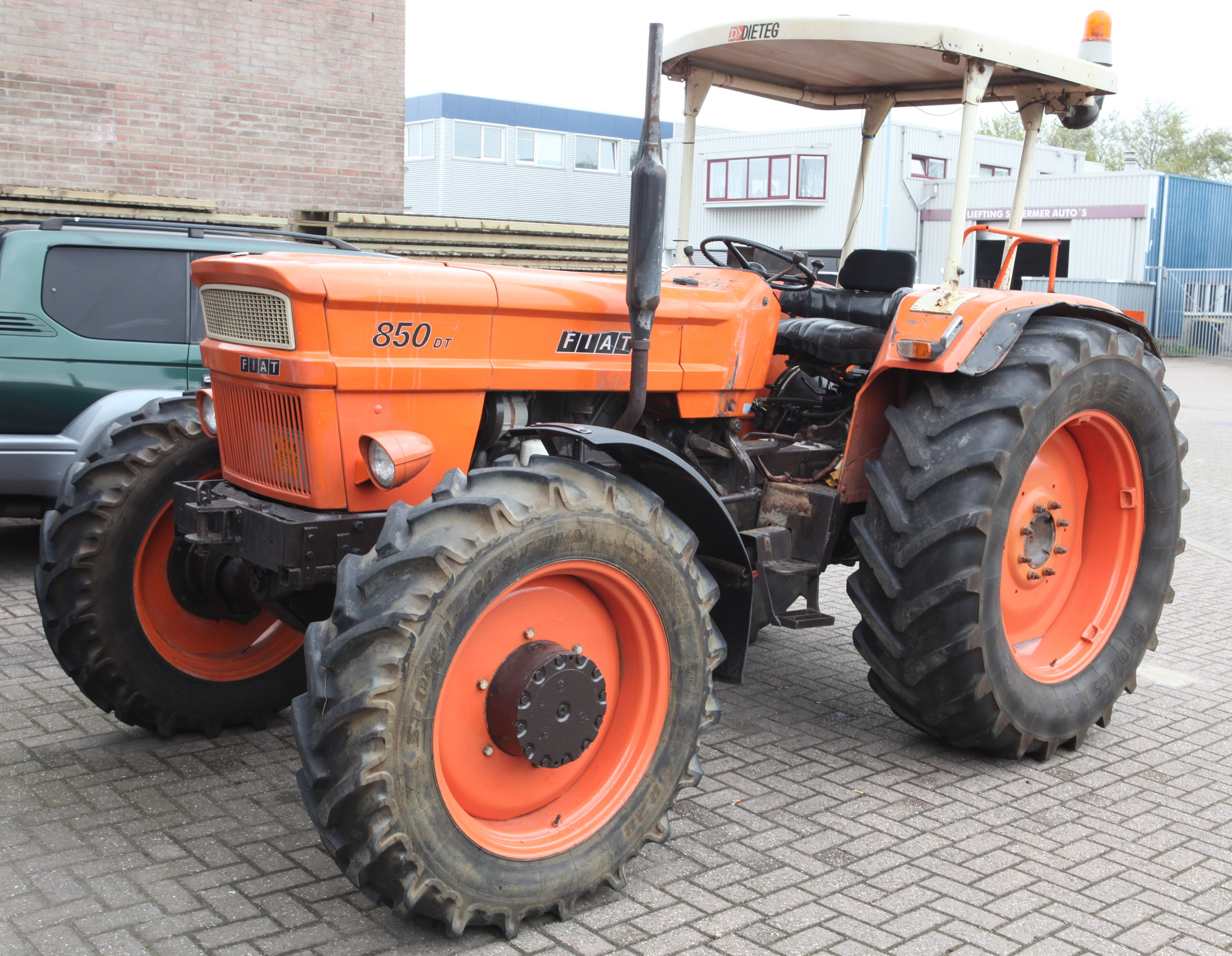 Fiat 850 DT produced 1969 to 1975